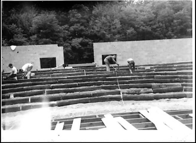 Sundance open air theater under construction. spring 1963